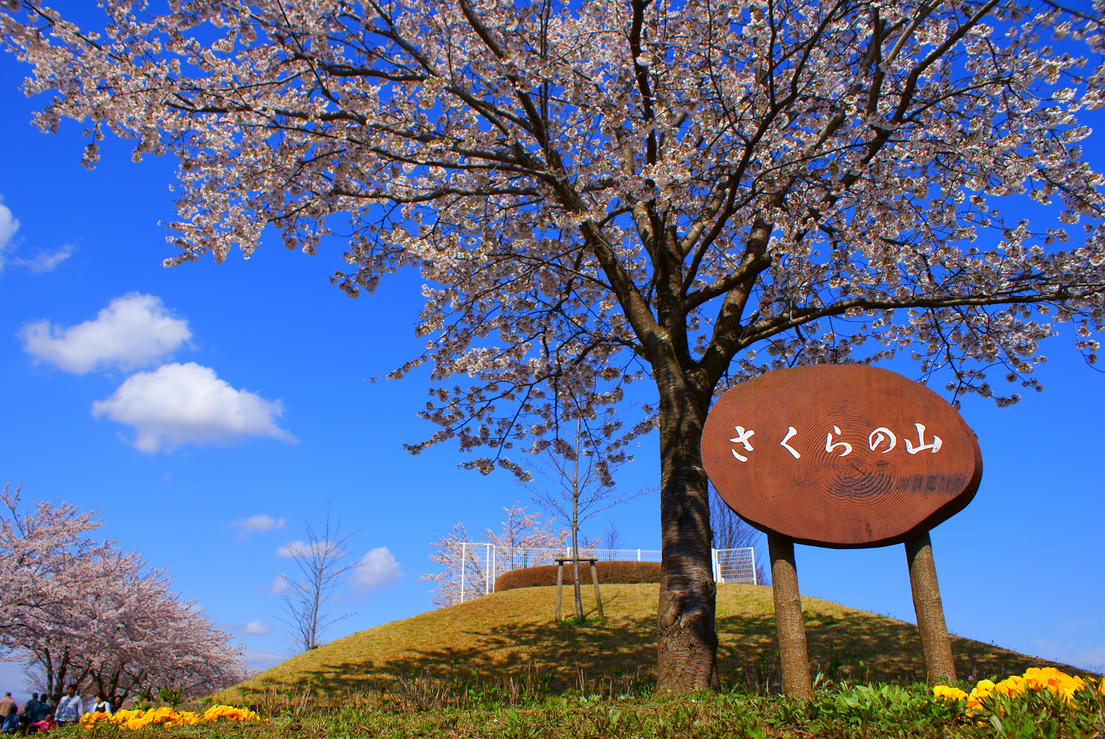 Sakuranoyama Park near the Narita Airport